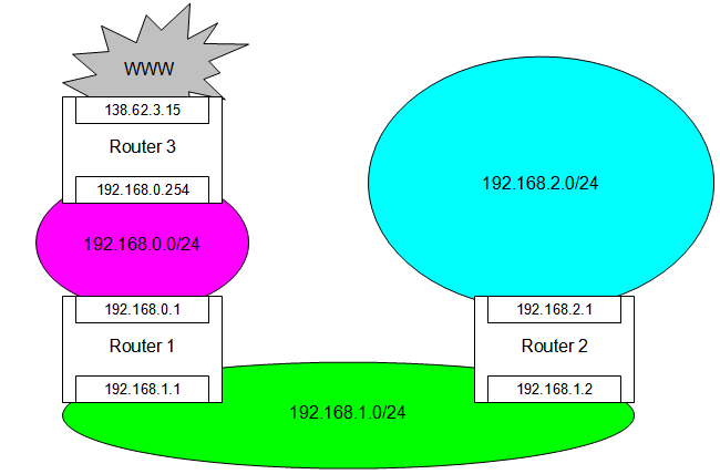 Example LAN for routing tables